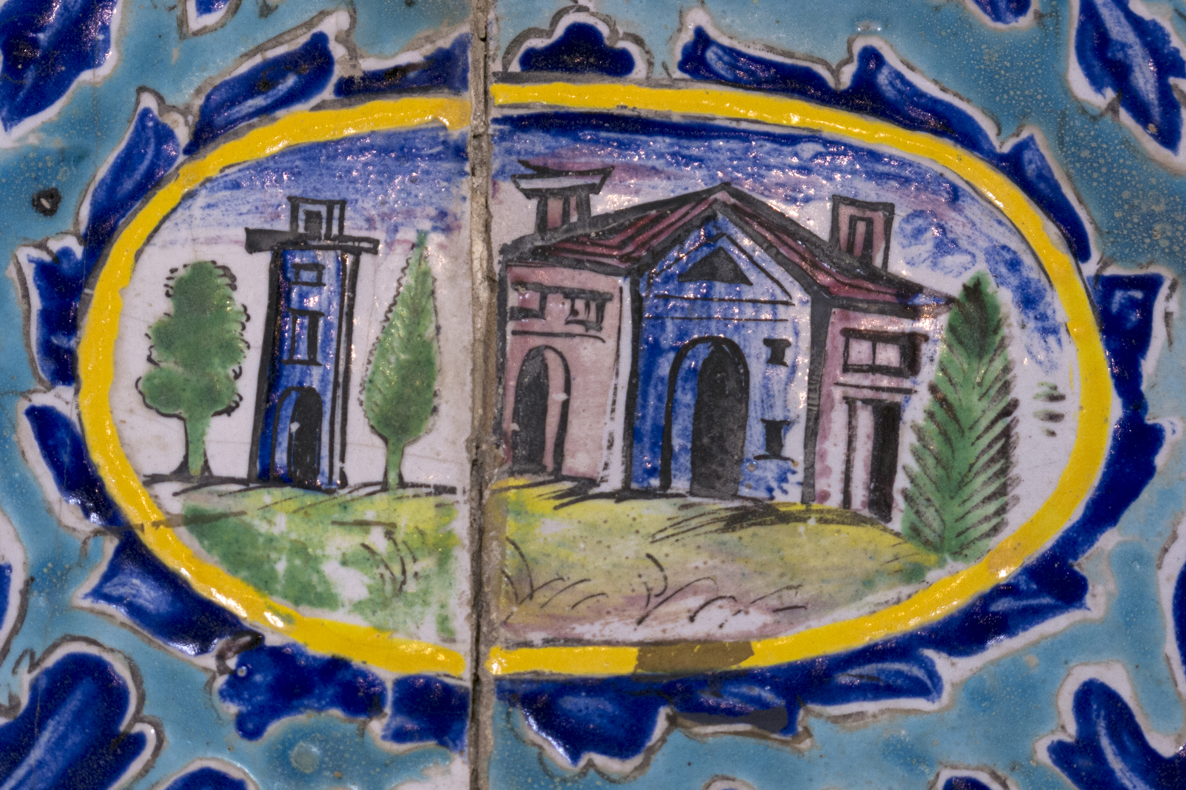 A tile is a manufactured piece of hard-wearing material such as ceramic, stone, metal, or even glass, generally used for covering roofs, floors, walls, showers, or other objects such as tabletops